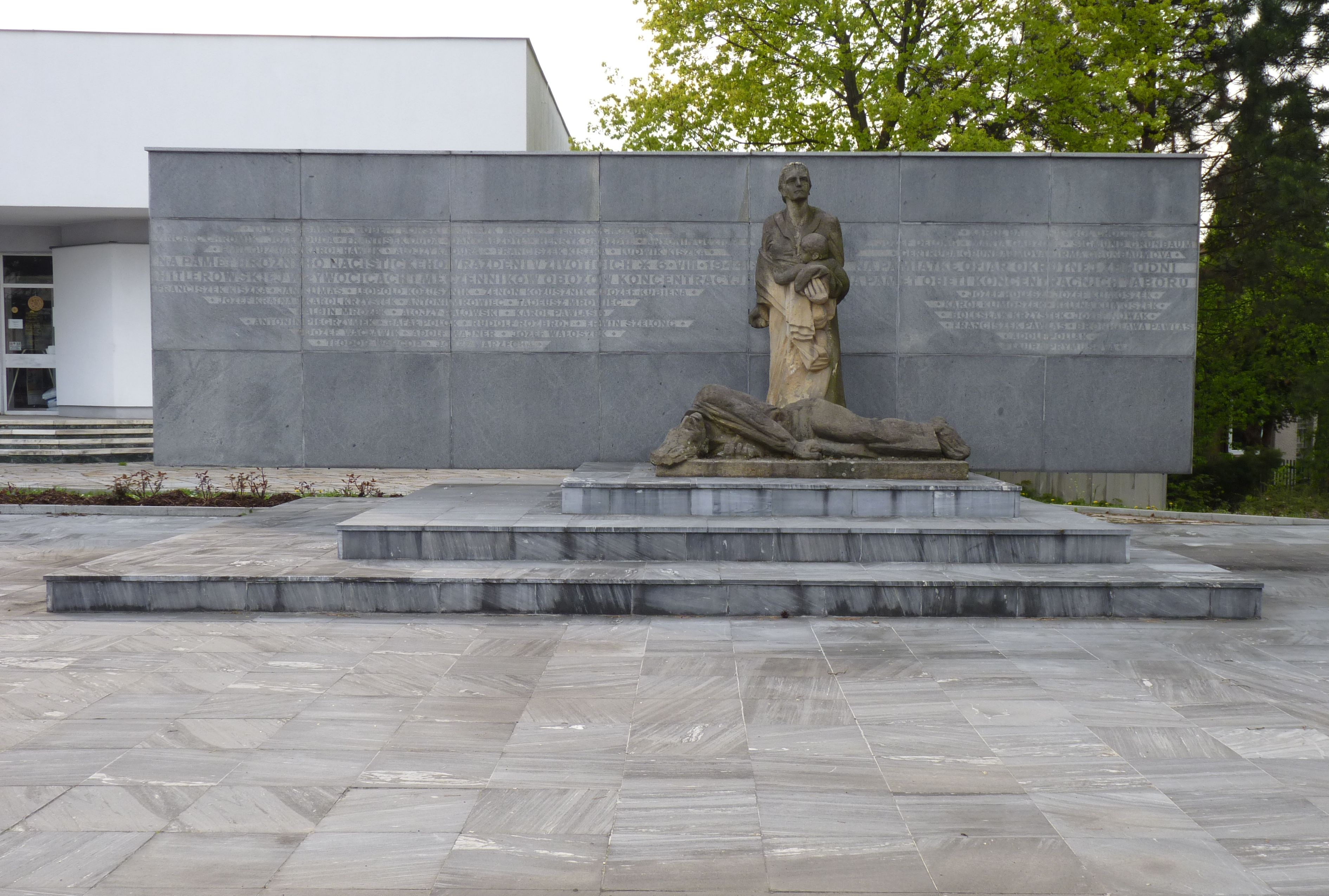 Životice tragedy Memorial. Životice (havířov), Karviná District, Moravian-Silesian Region, Czech Republic